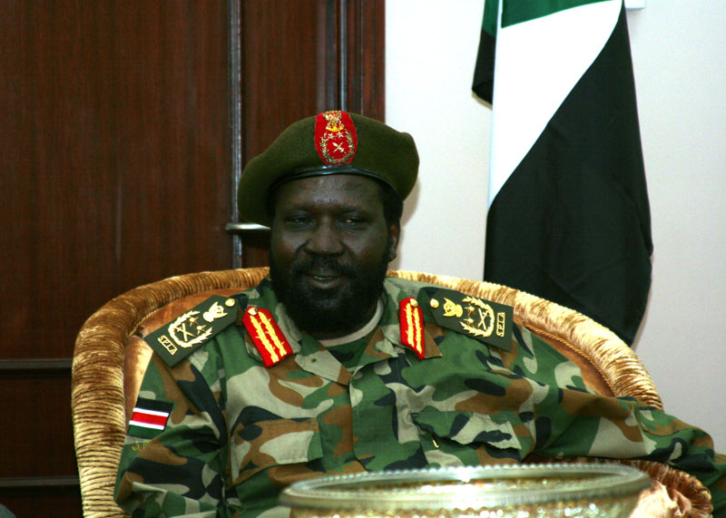 Salva Kiir is the President of Southern Sudan and the First Vice president in Sudan. He is also the leader of the political party Sudanese People's Liberation Movement, SPLM.